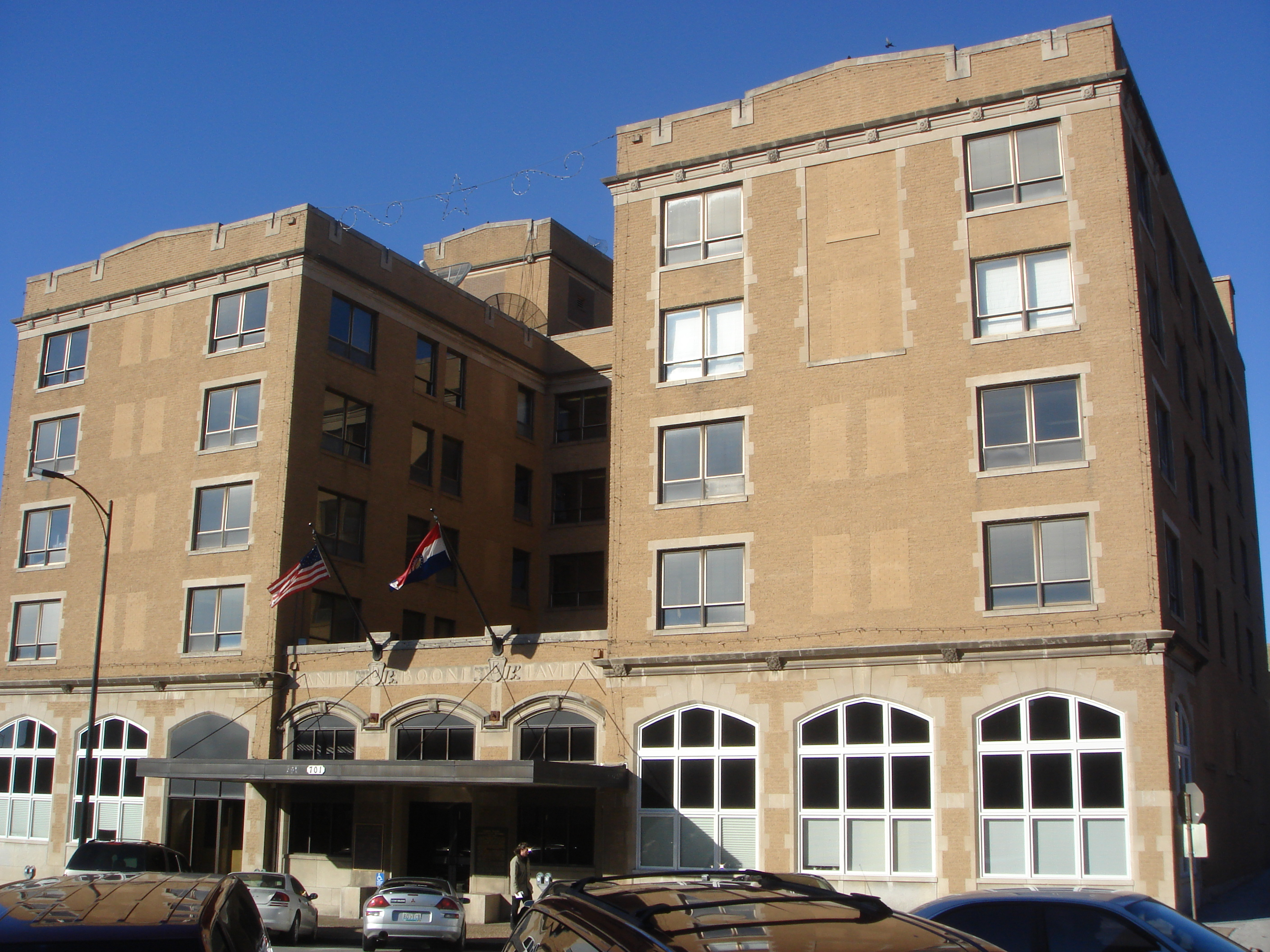 Picture of the city hall(Daniel Boone Building) of Columbia, Missouri Columbia, Missouri